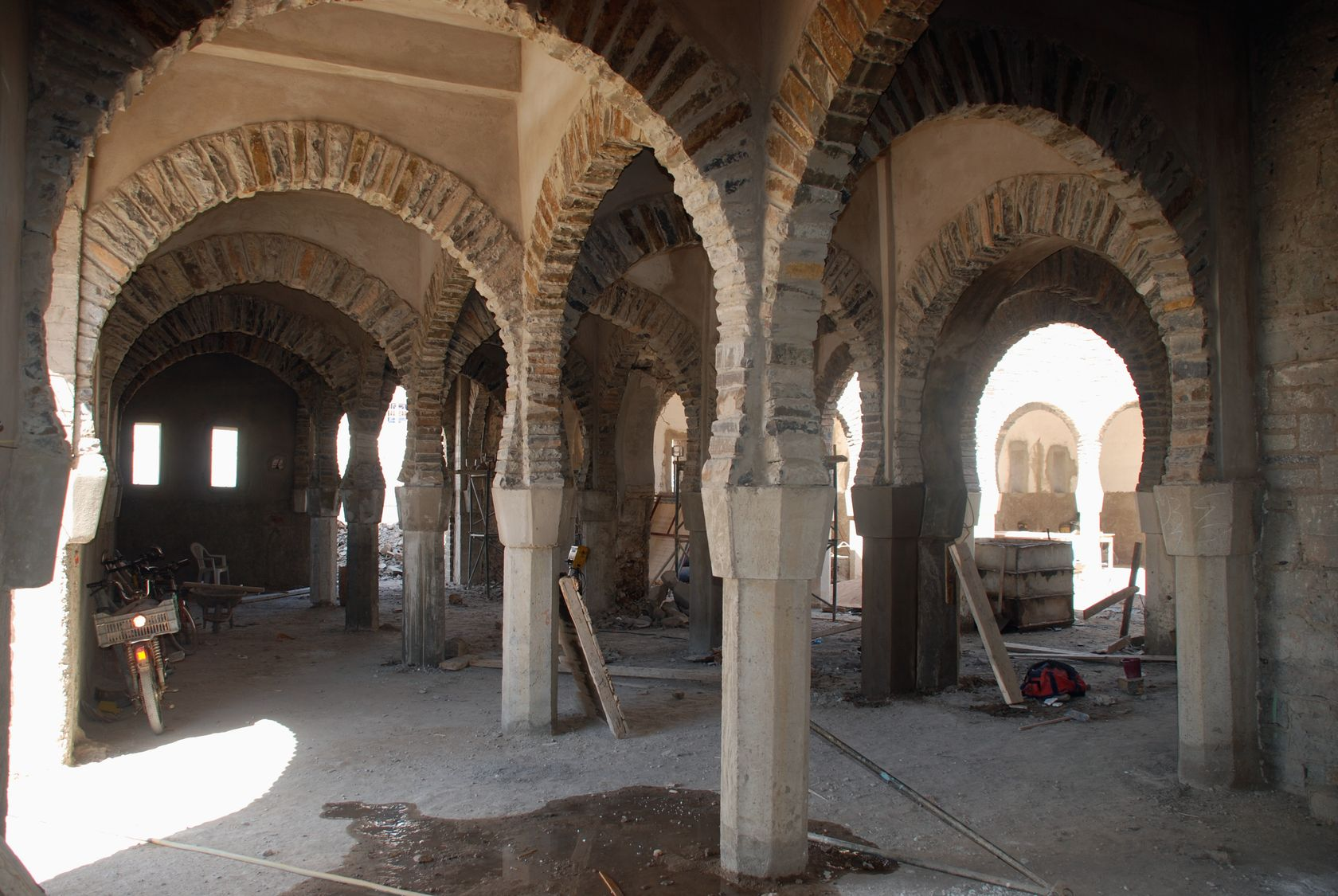 Smara, Western Sahara, old mosque